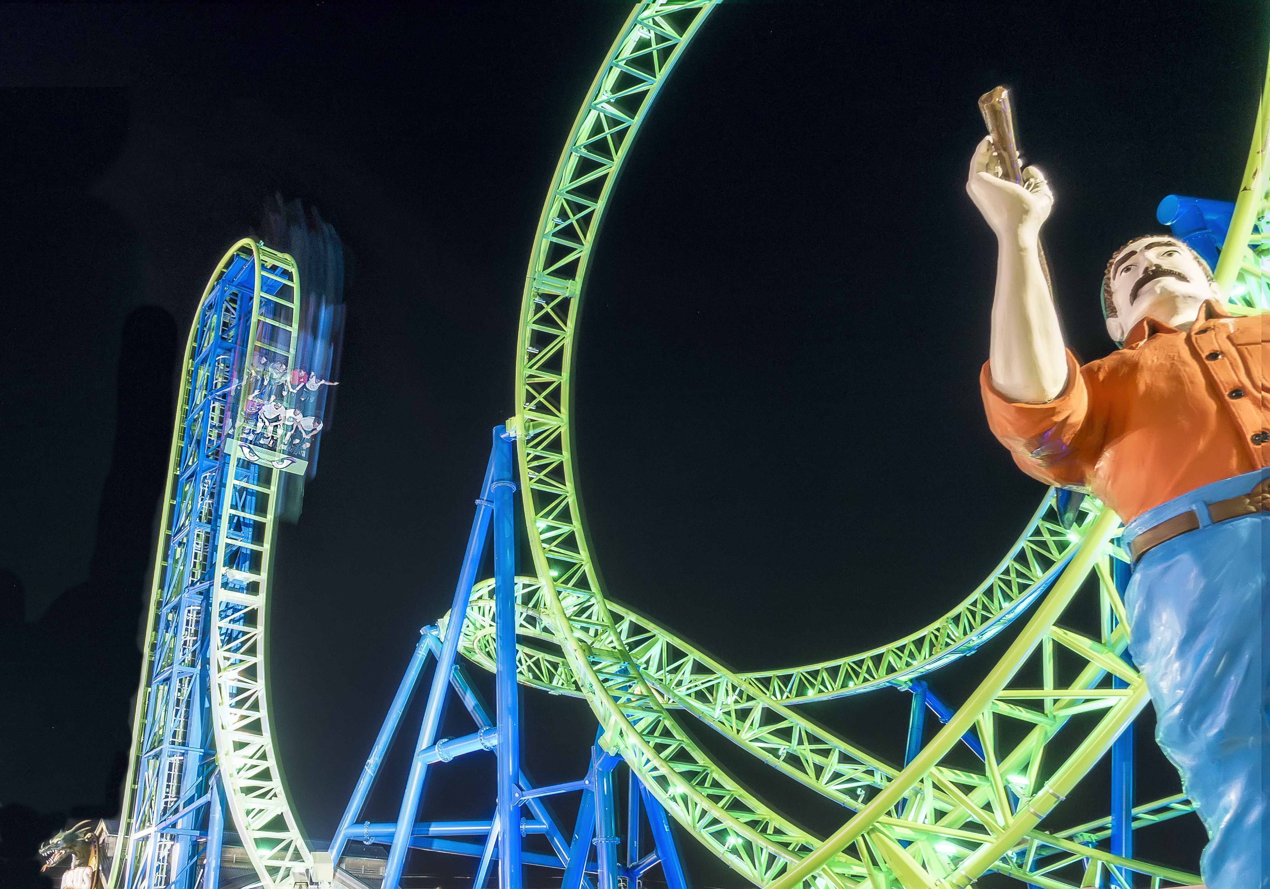 The new roller coaster on Casino Pier in Seaside Heights, NJ. It replaced the Jet Star that was knocked into the Atlantic by Hurricane Sandy in 2012.